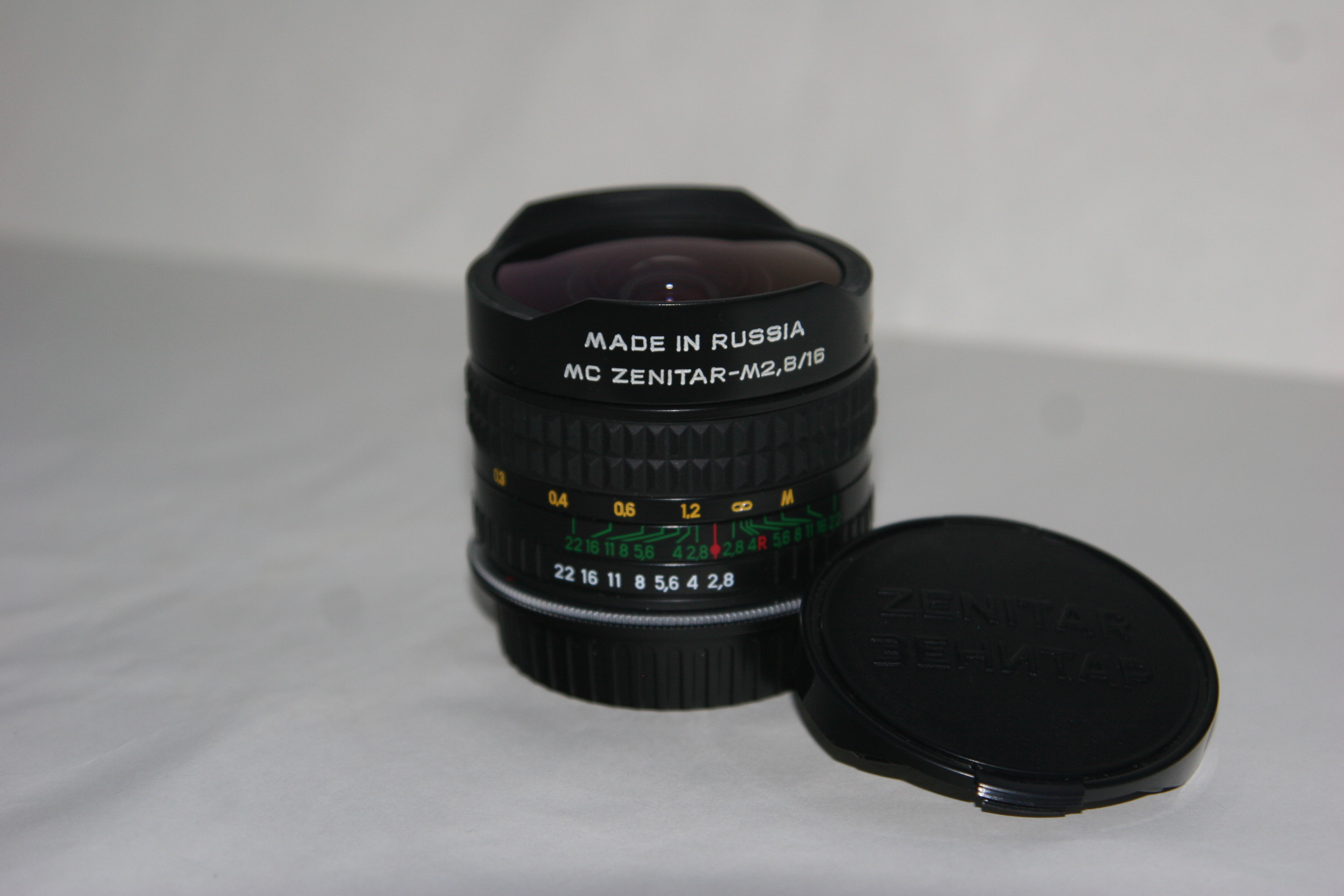 MC Zenitar-M2,8/16 - Soviet diagonal fishye lens